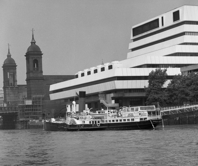 P. S. 'Princess Elizabeth' near Cannon Street station This paddle steamer was moored here, and was in use as a floating restaurant. She was moved in 1987 and is now in Dunkerque. I am indebted to Christine Matthews for this information. (The white building behind is Mondial House, a telephone exchange demolished in 2006).